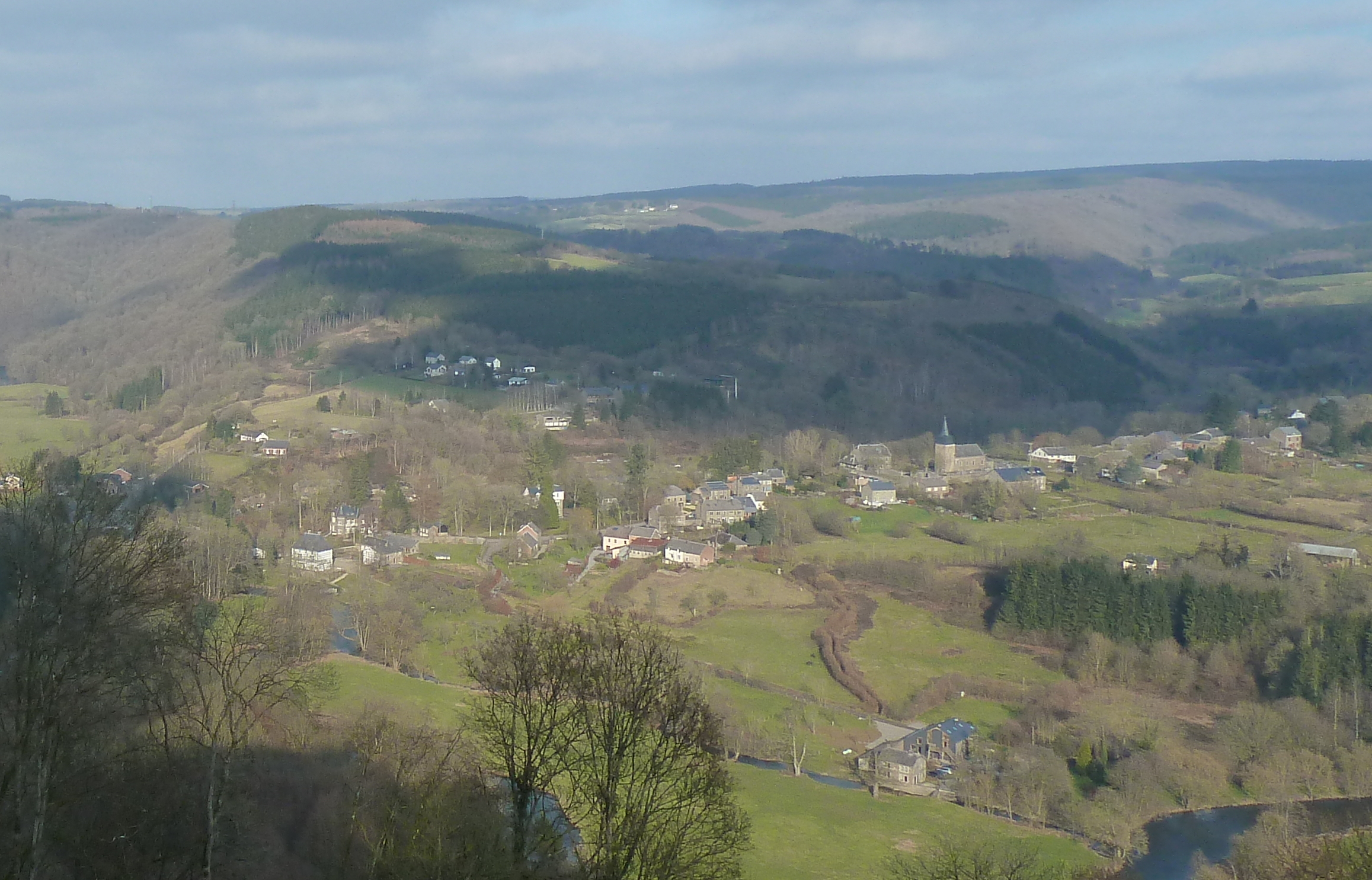 View of Marcourt from Hermitage and chapel of Saint-Thibaut, Marcourt, Rendeux, Belgium